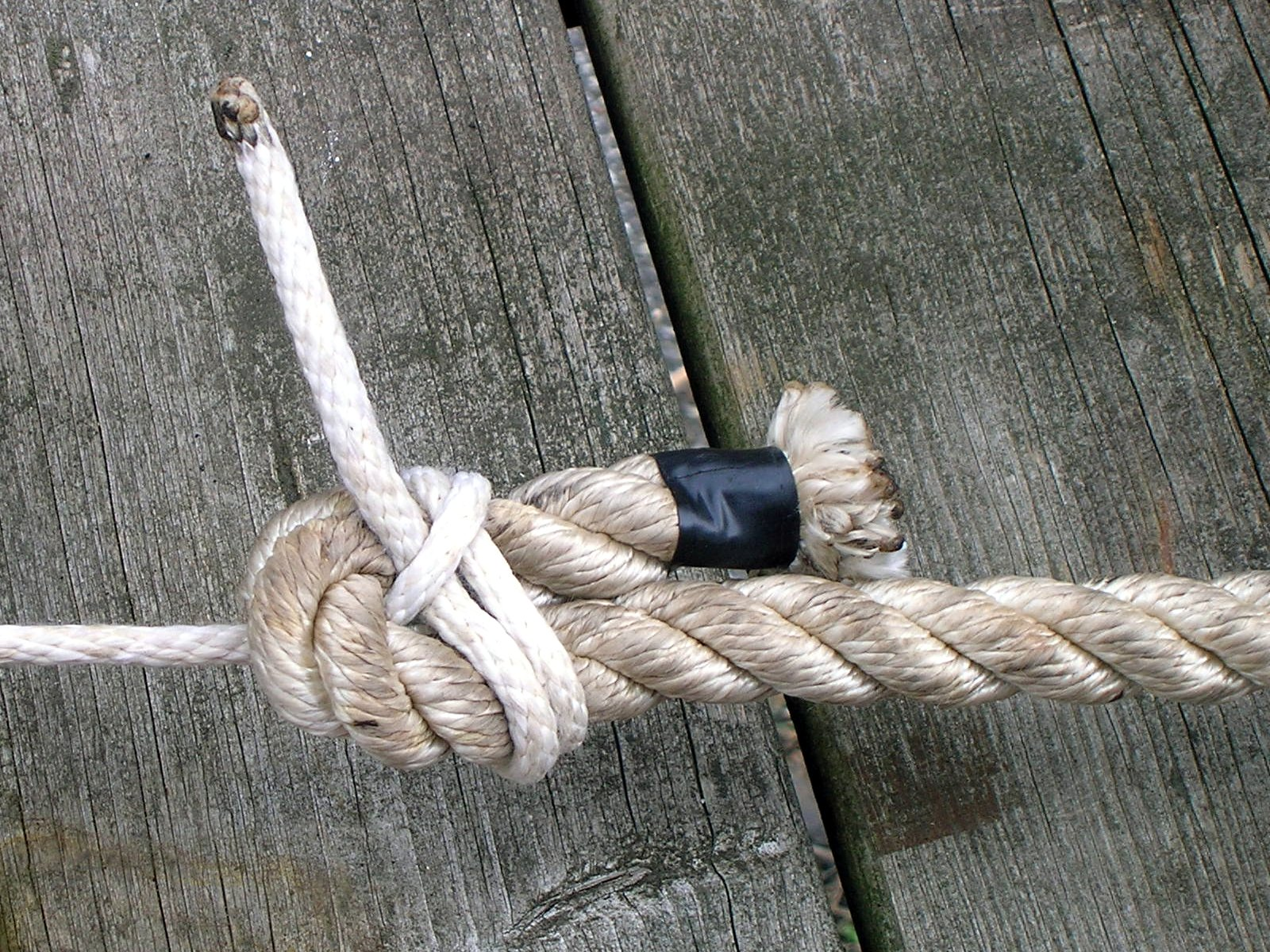 Double sheet bend